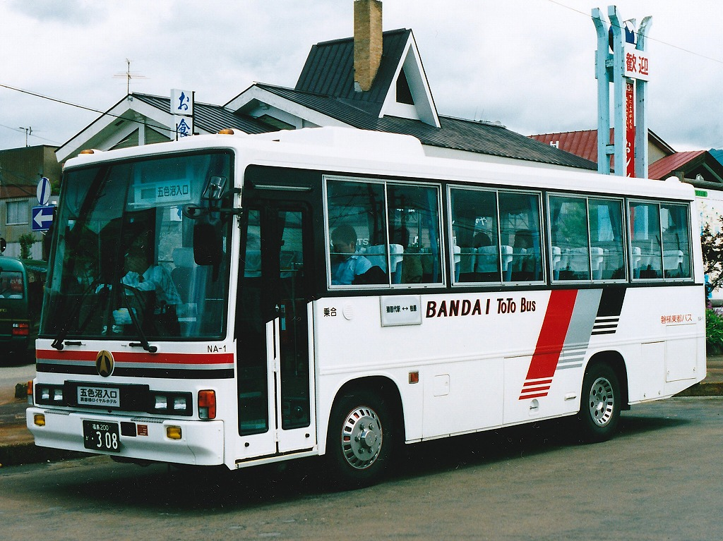 Bandai Toto bus Isuzu Journey K (U-LR232F)